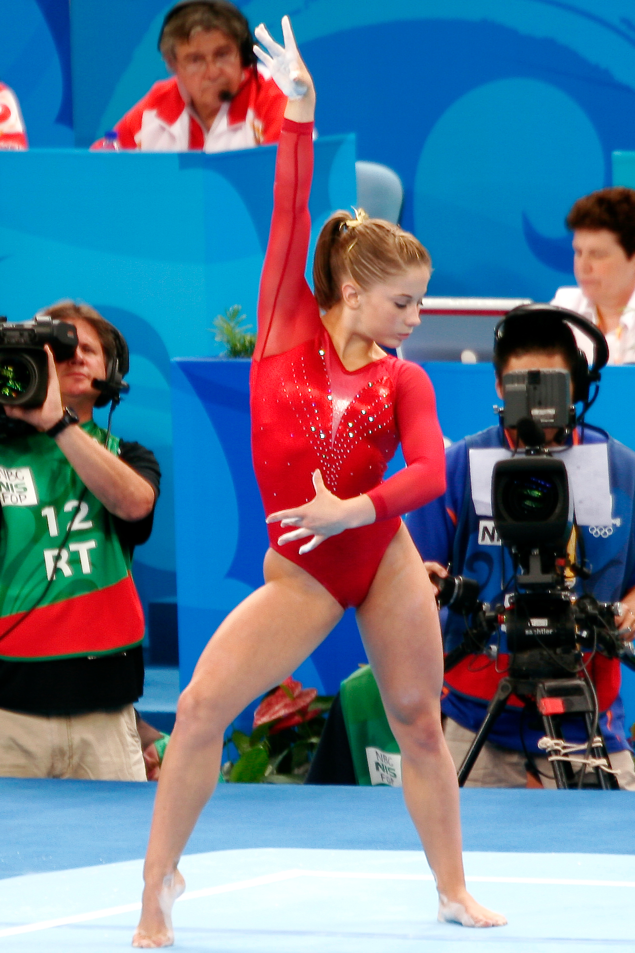 Shawn Johnson begins her floor routine in the individual all-around women's gymnastics competition. She went on to win silver.